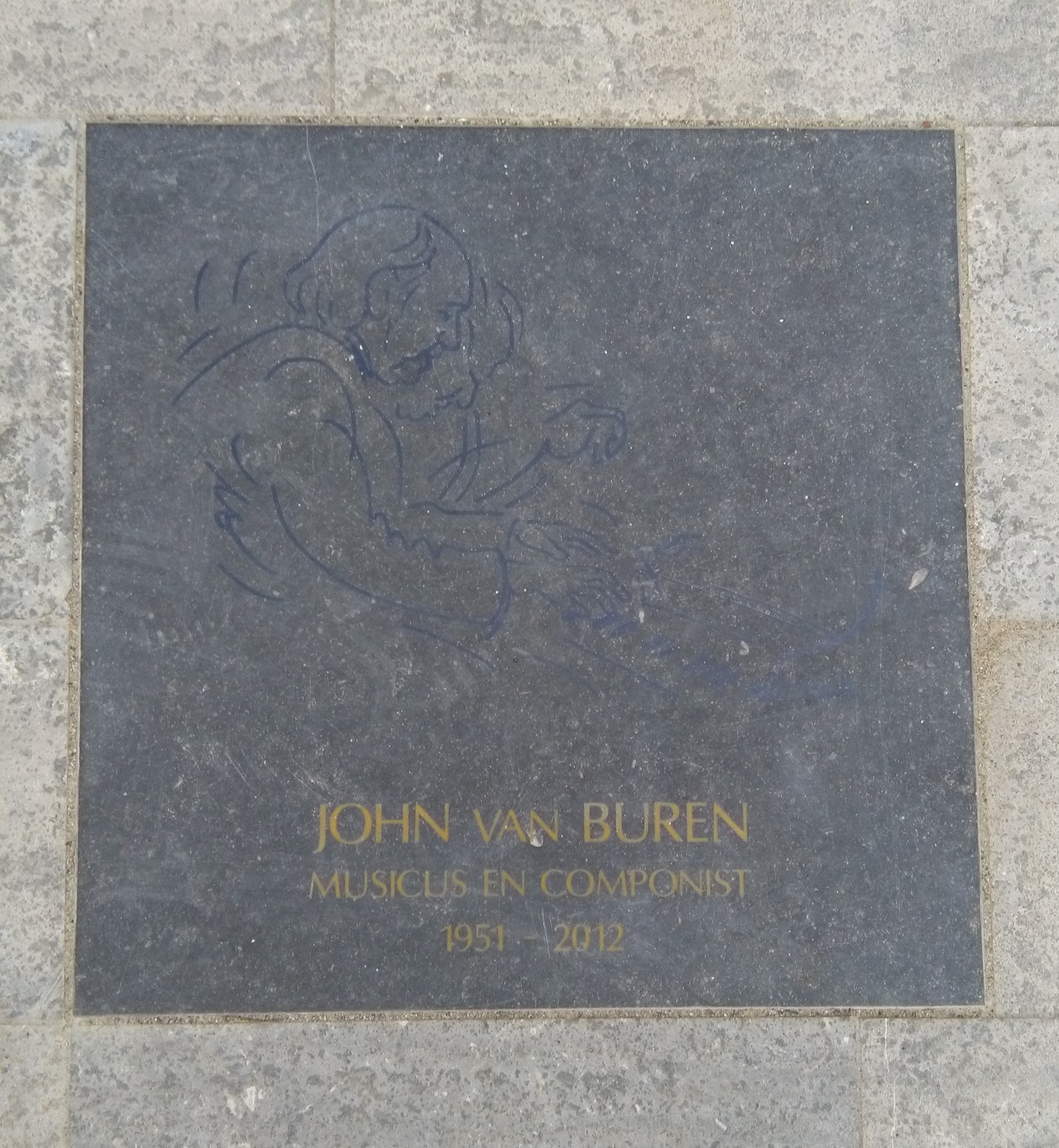 Plaquette by Guusje Kaayk at John van Burenplein, Tiel